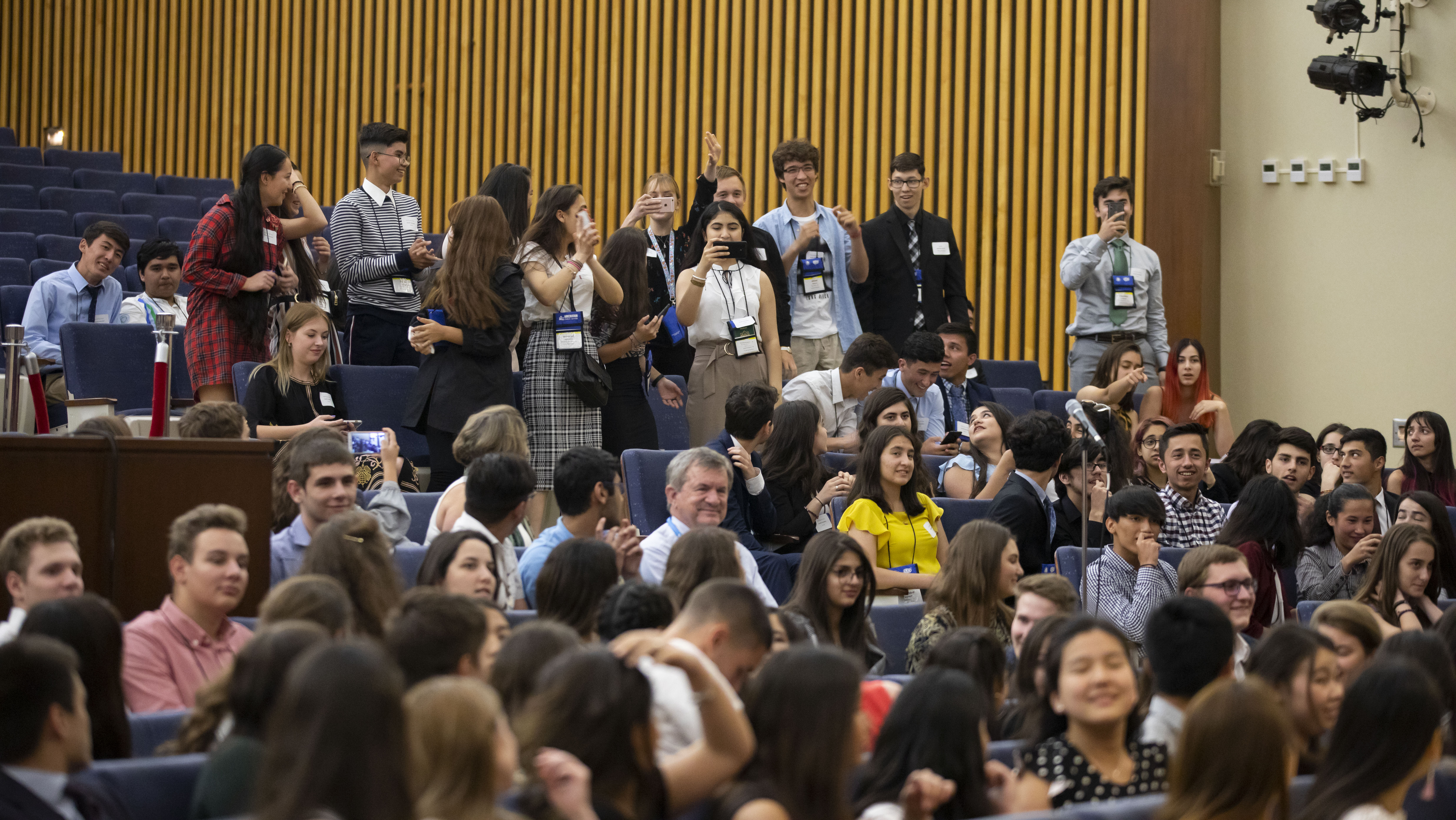 215 FLEX students from 10 countries gather at the Department of State the day before returning to their home countries.